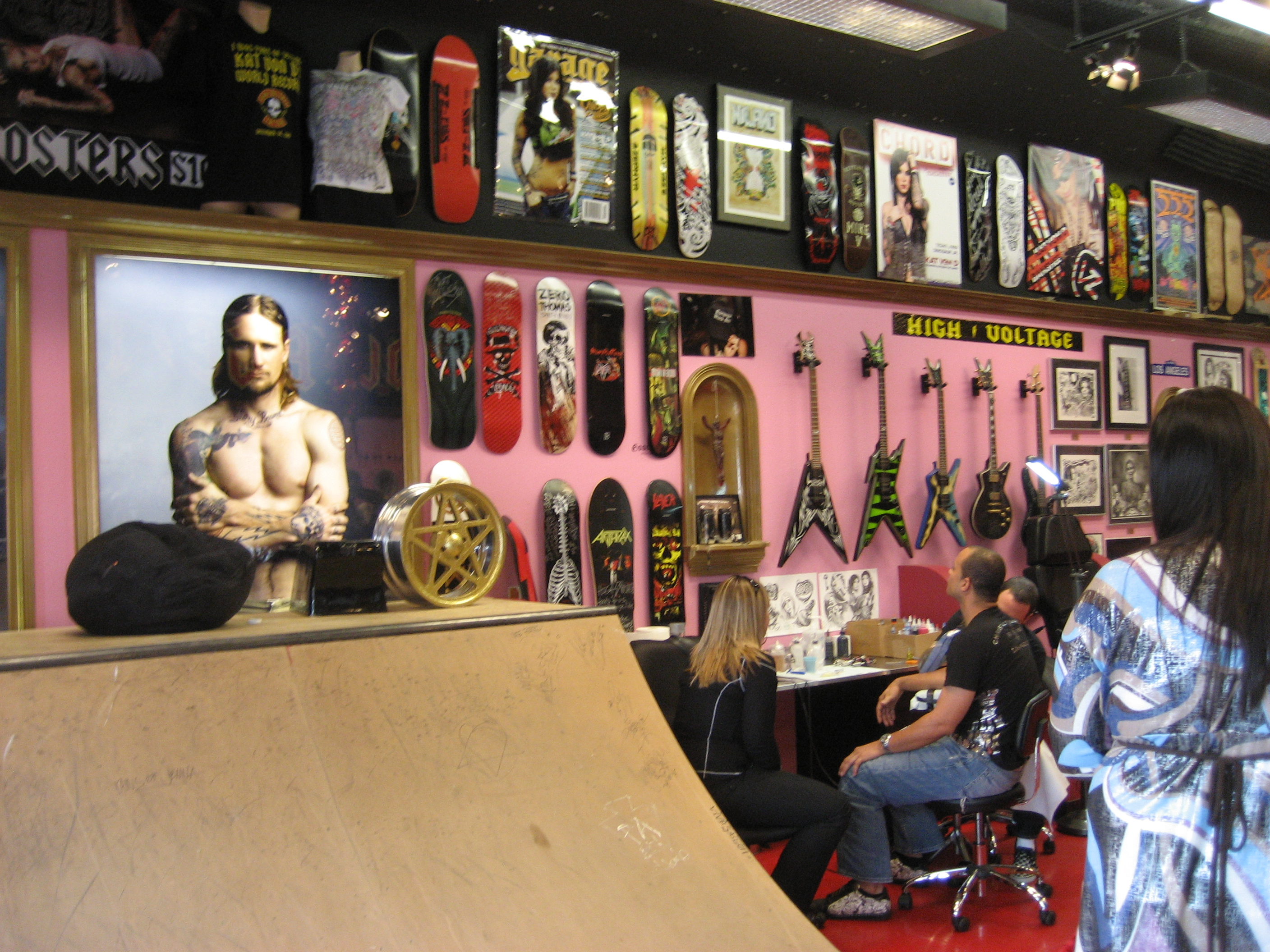 A look inside High Voltage Tattoo